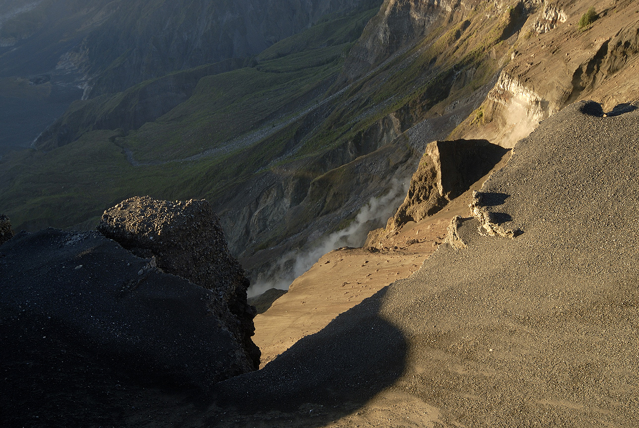 Tambora crater rim.